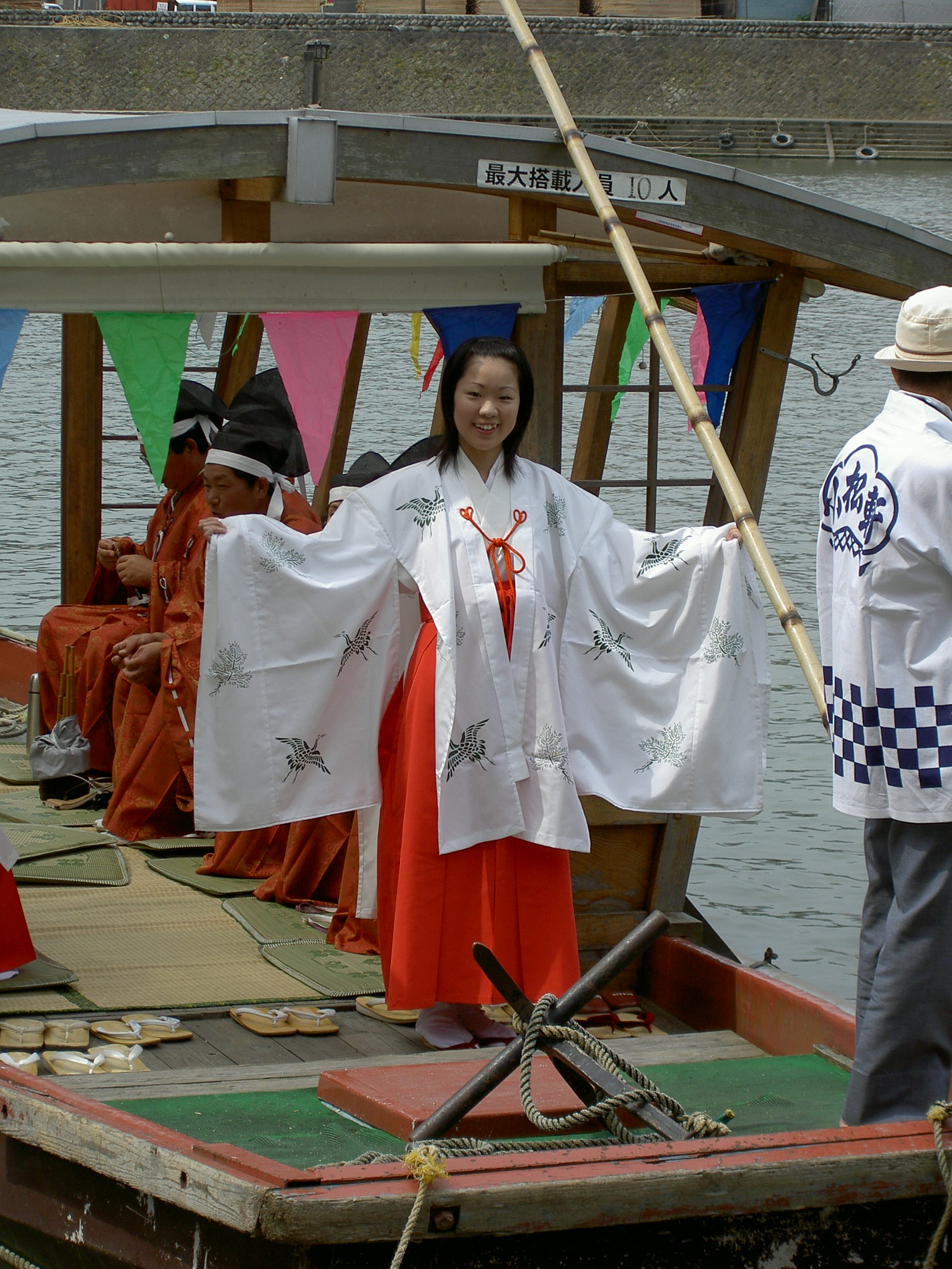 Miss Hita at the River Opening Festival.